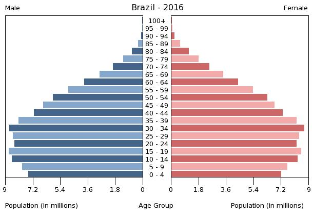 The population pyramid of Brazil illustrates the age and sex structure of population and may provide insights about political and social stability, as well as economic development. The population is distributed along the horizontal axis, with males shown on the left and females on the right. The male and female populations are broken down into 5-year age groups represented as horizontal bars along the vertical axis, with the youngest age groups at the bottom and the oldest at the top. The shape of the population pyramid gradually evolves over time based on fertility, mortality, and international migration trends.